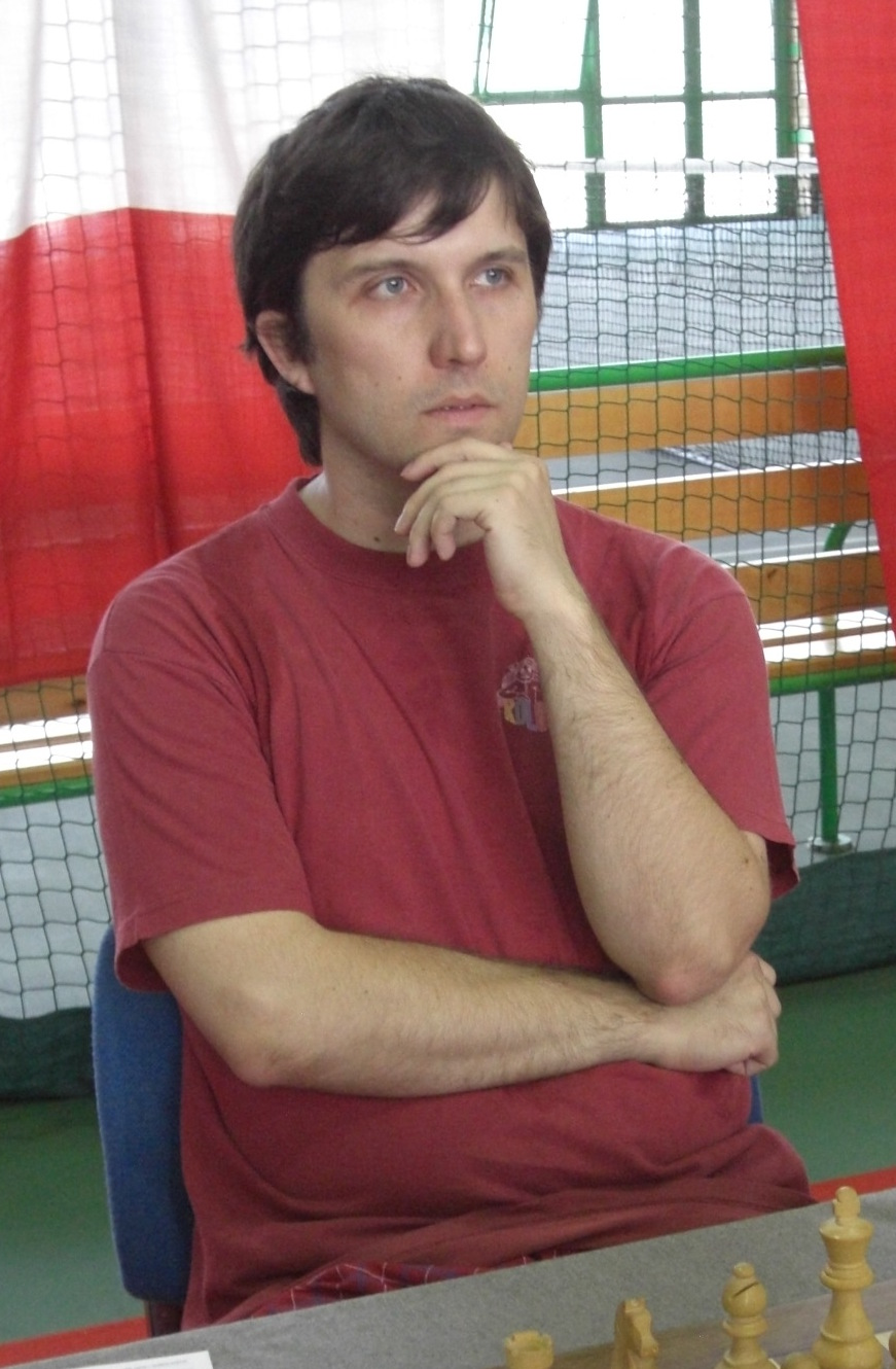 Pavel Simacek during Polonia Wroclaw's 5th International Chess Tournament (2010)